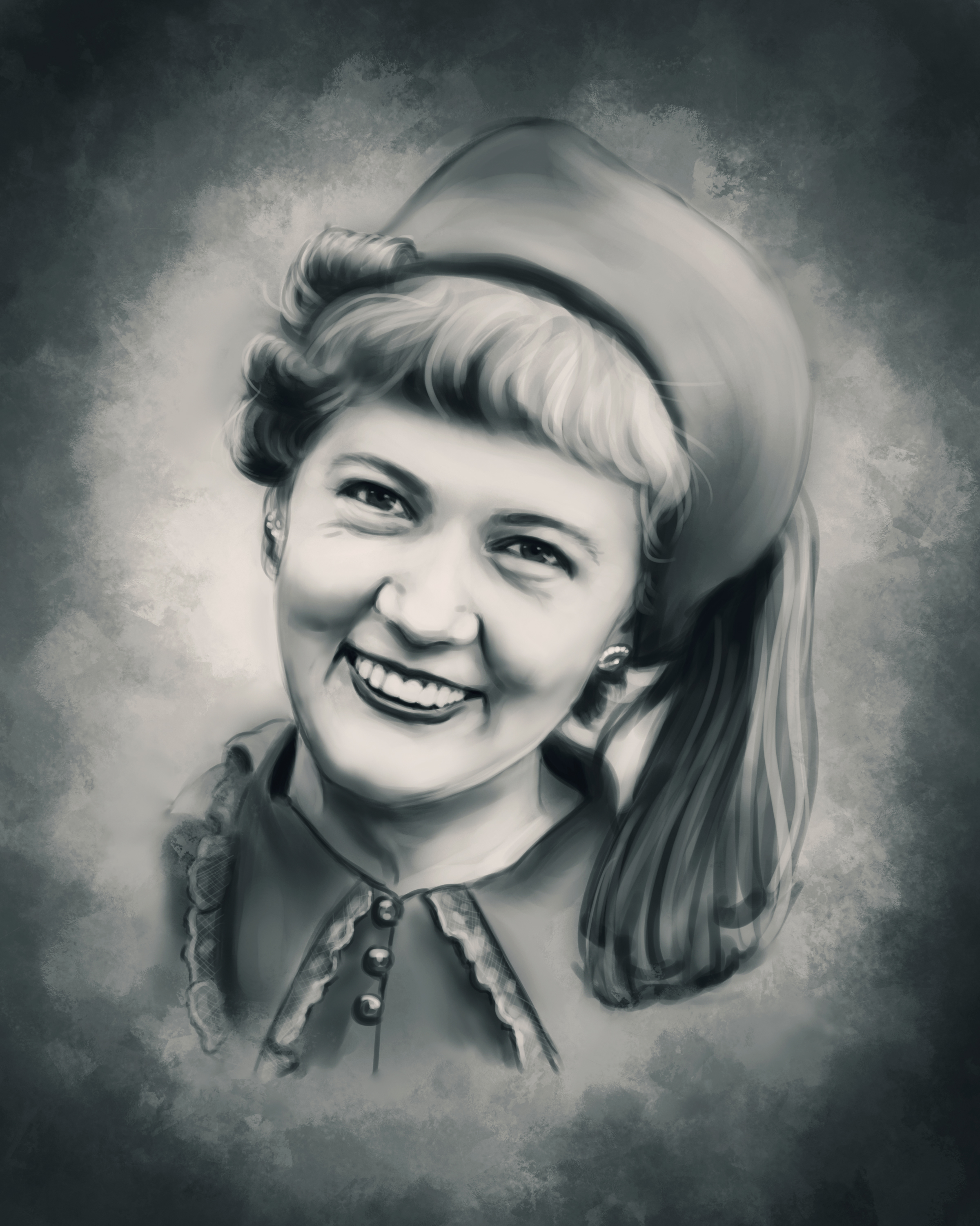 This is an artist's rendition of Annalee Skarin in her forties. This painting was made of an orphaned photograph obtained from the J. Willard Marriott Library, The University of Utah, Special Collections, Hope Hilton Papers. Argentinian artist AleRafa created this painting under commission.